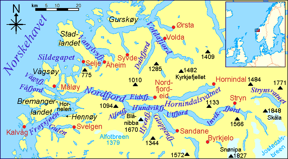 Map showing the Nordfjord, Norway